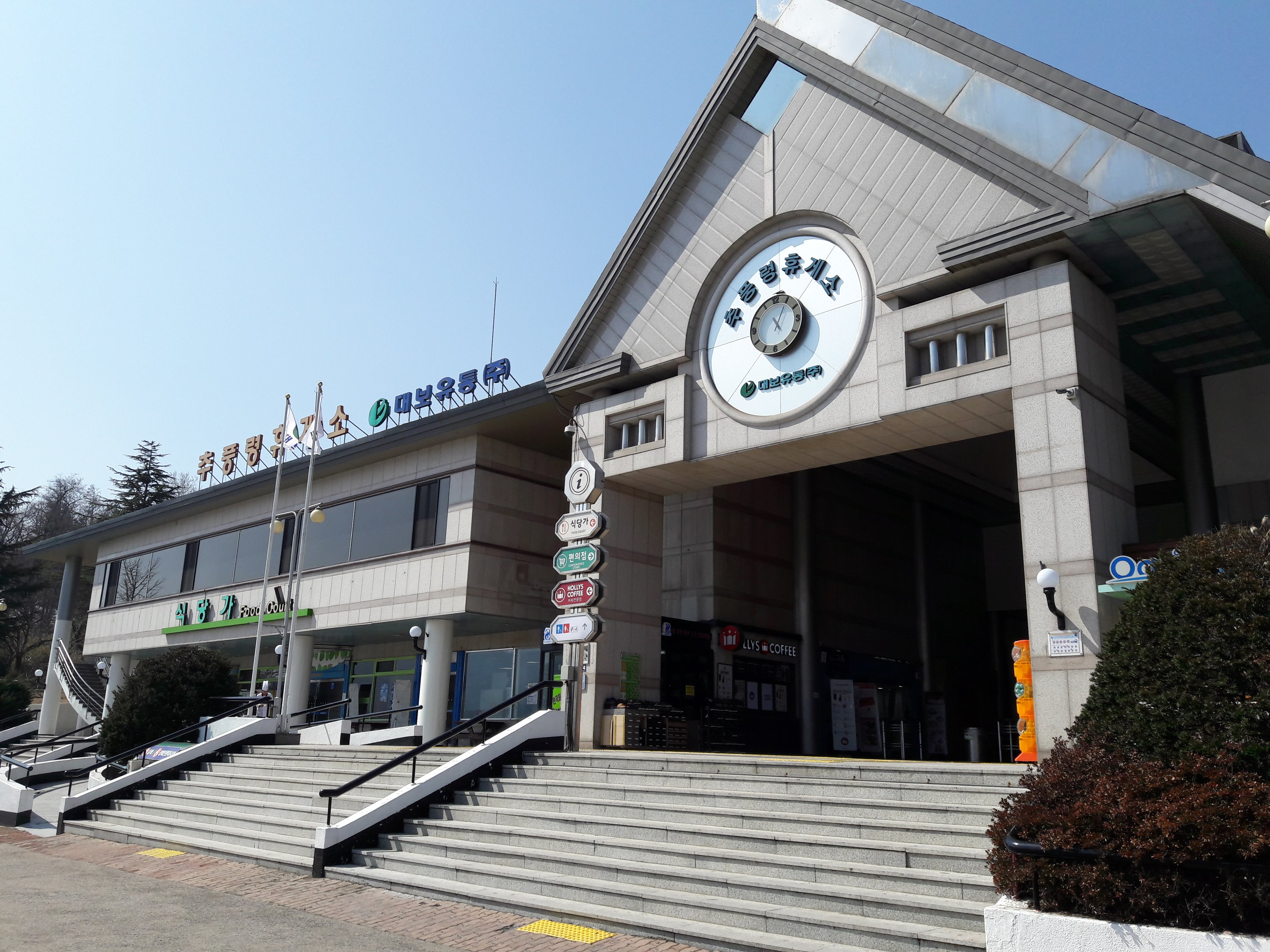 Chupungnyeong Service area